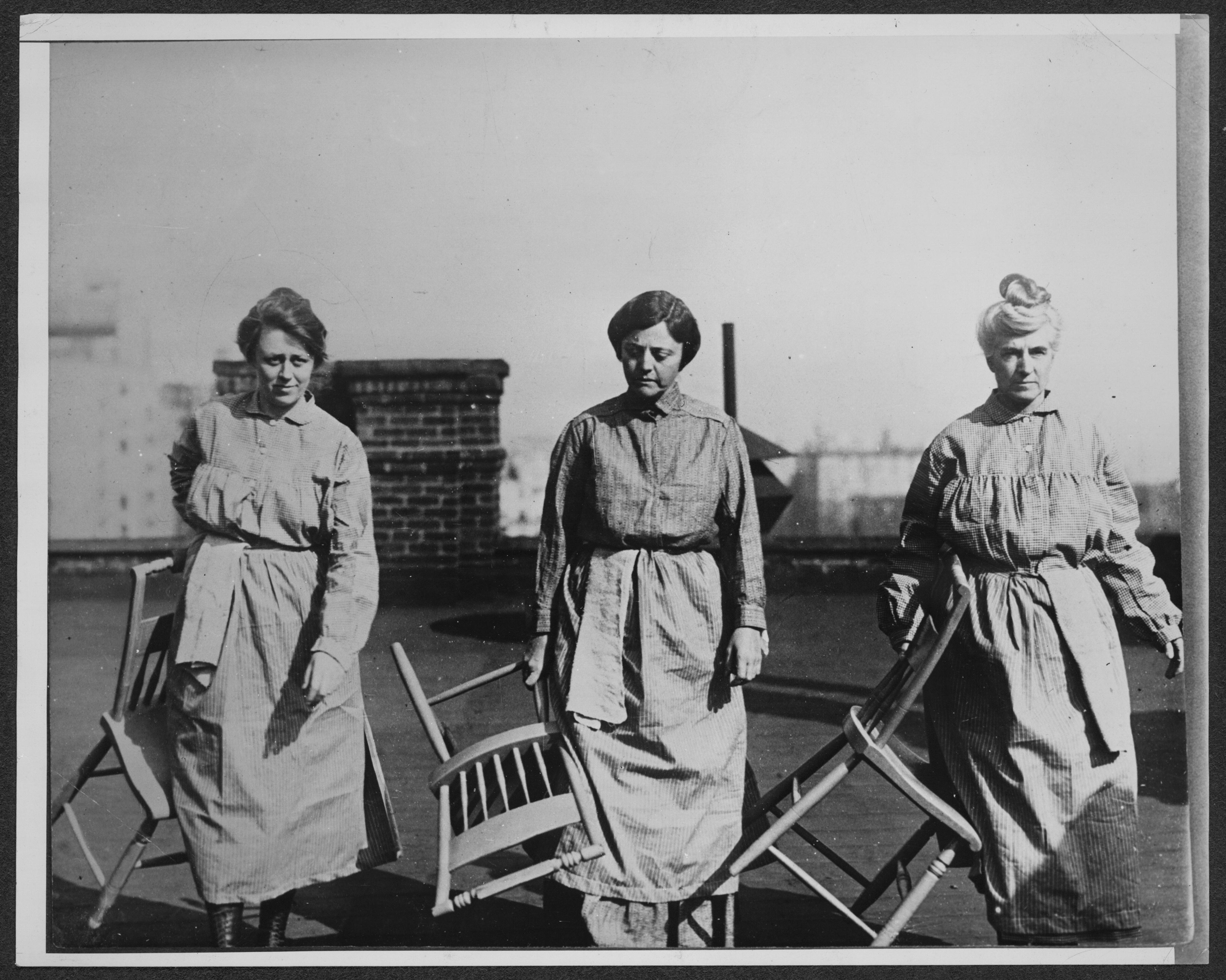 Summary: Outdoor photograph of three National Woman's Party members in prison dress carrying wooden chairs, on rooftop of building. (Left to right): Doris Stevens, Alison Turnbull Hopkins, and Eunice Dana Brannan. Doris Stevens of New York City, previously of Omaha, Neb., was arrested for picketing the White House on July 14, 1917 and sentenced to 60 days in Occoquan Workhouse; she was pardoned by President Wilson after 3 days. She was arrested in New York in March 1919, during the picket demonstration of the Metropolitan Opera House during Wilson's appearance there, but was not sentenced. Allison Turnbull Hopkins, of Morristown, NJ, was state chairman of the NWP. Her husband was a supporter of President Wilson and he served on the Democratic National Committee in 1916. She was arrested July 14, 1917, for picketing, and sentenced to 60 days in Occoquan Workhouse; she was pardoned after 3 days. Eunice Dana Brannan, state chair of the New York branch of the NWP, was arrested picketing July 14, 1917, sentenced to 60 days, and pardoned after 3. She was arrested again picketing Nov. 10, 1917 and sentenced to 45 days. Source: Doris Stevens, Jailed for Freedom (New York: Boni and Liveright, 1920), 356, 361-62, 368.